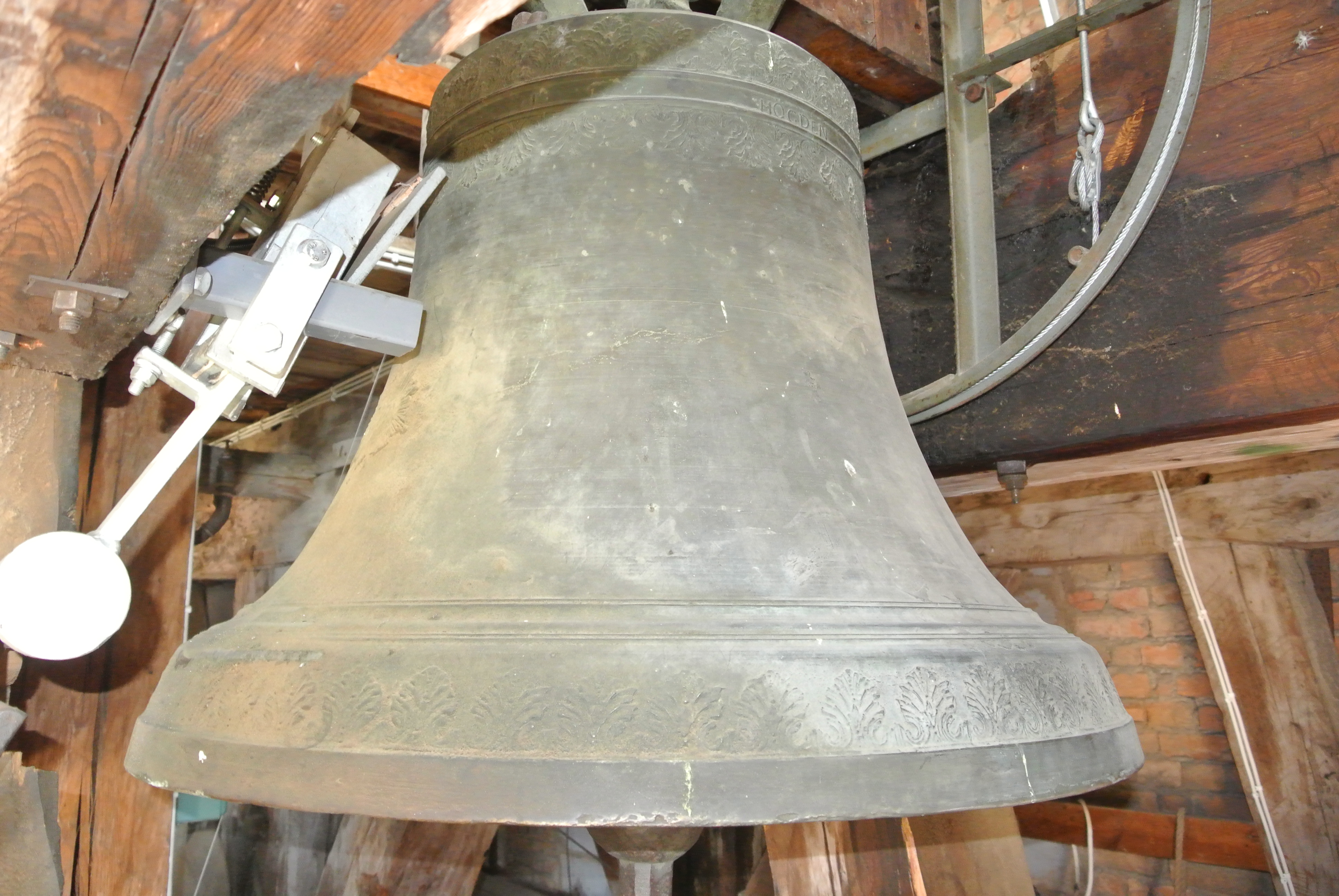 Prästklockan i Linköpings domkyrka.